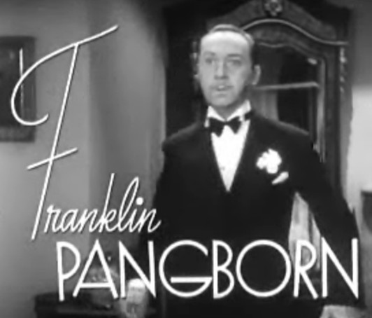 Cropped screenshot of Franklin Pangborn from the trailer for the film Topper Takes a Trip